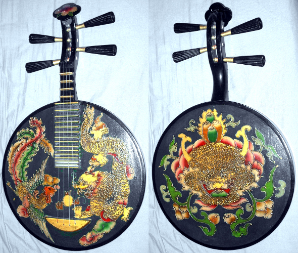 Picture of Musical instrument from the website Creative Commons Attribution Share-alike license (CC-BY-SA